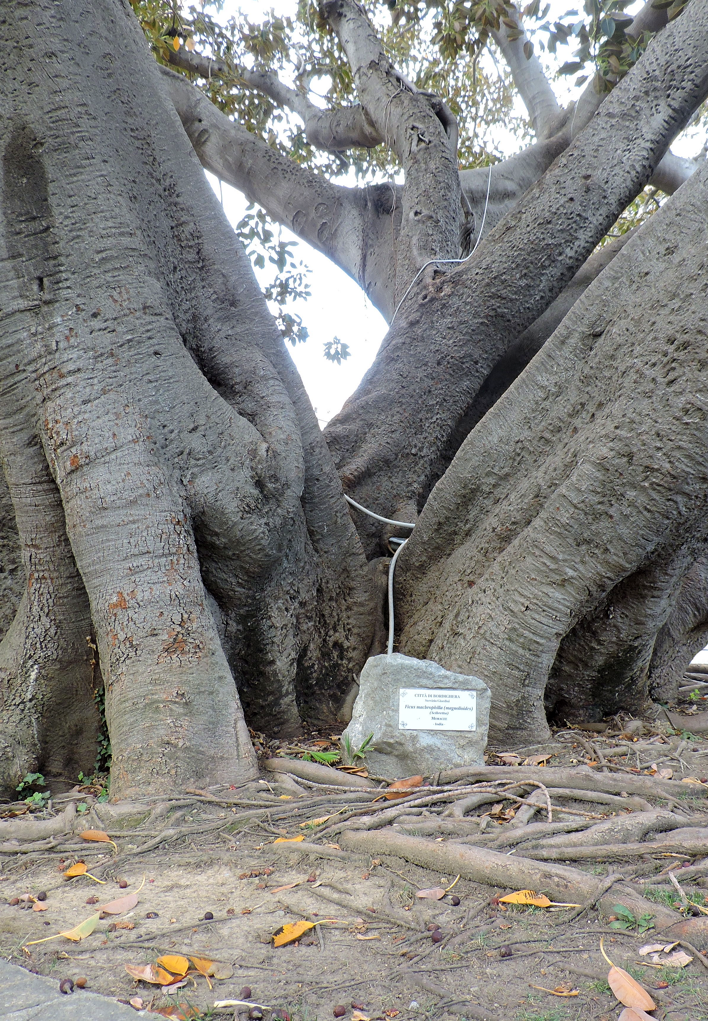 Bordighera: the old Ficus macrophylla named Scibretta